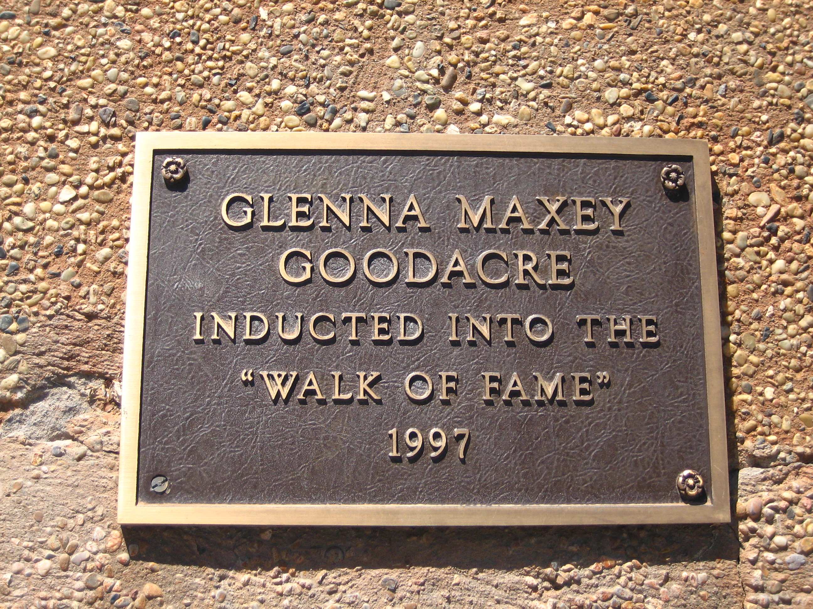 I took photo on April 3, 2009.Billy Hathorn (talk) 03:48, 12 April 2009 (UTC)